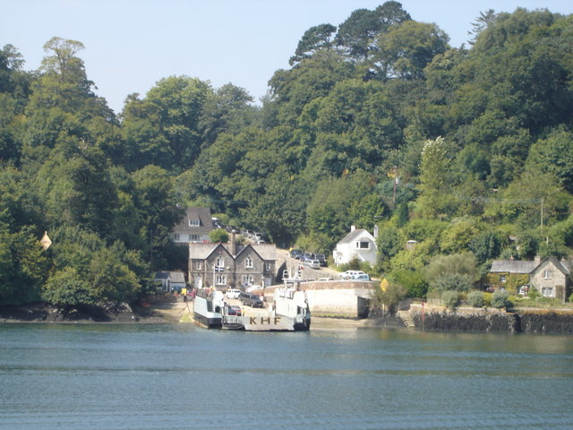 The Feock terminal of the King Harry Ferry. For more information see the Wikipedia article King Harry Ferry.